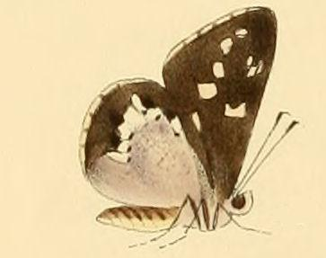 Plate: Hesperia V * Hesperia ophiusa. Figs. 46, 47, 48. Accepted as Hypoleucis ophiusa (Hewitson, 1866).